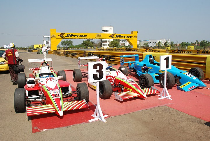 Formula Rolon's at MMSC track parked at post race podium positions during the final roung of JK National Racing Championship in MMSC track, Sriperembudur, Chennai.